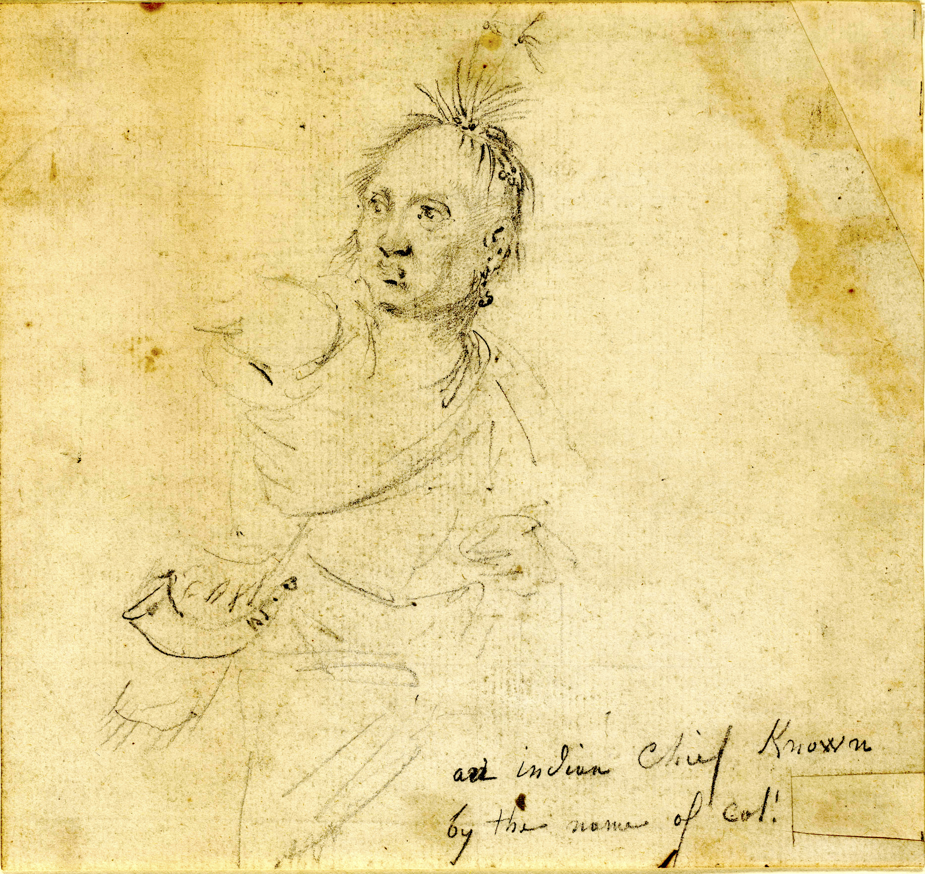 Captain Joseph Lewis of Louis, of the Oneida Indians, study for the “Attack on Quebec”, no. 6 in key